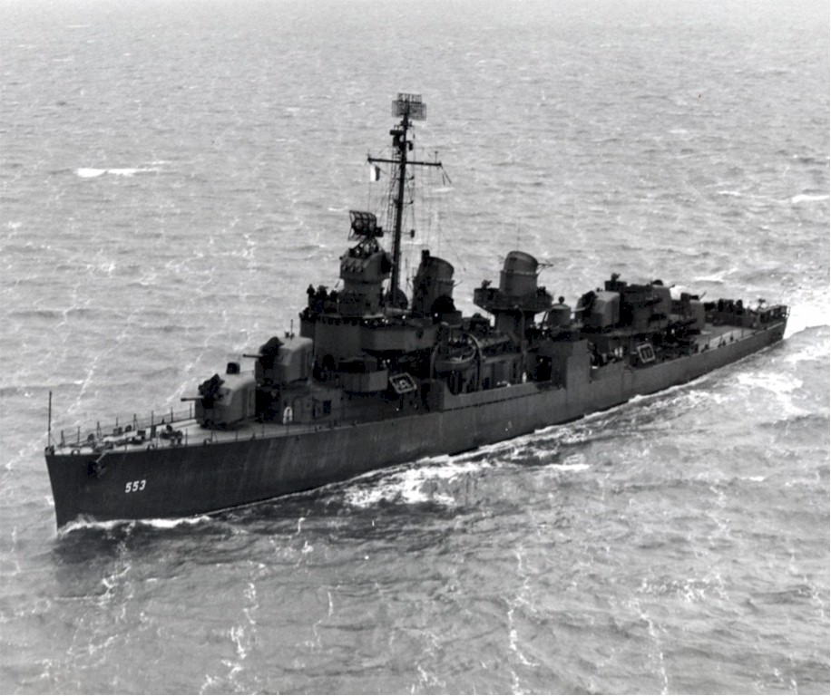 The U.S. Navy destroyer USS John D. Henley (DD-553) underway shortly after her commissioning in February 1944.